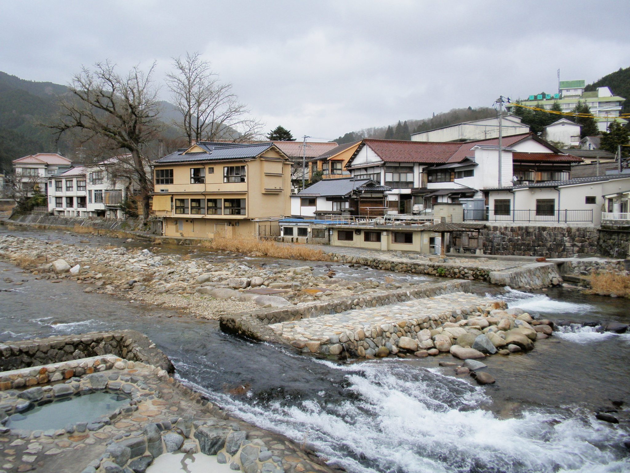 Okutsu spa town and Yoshii river.